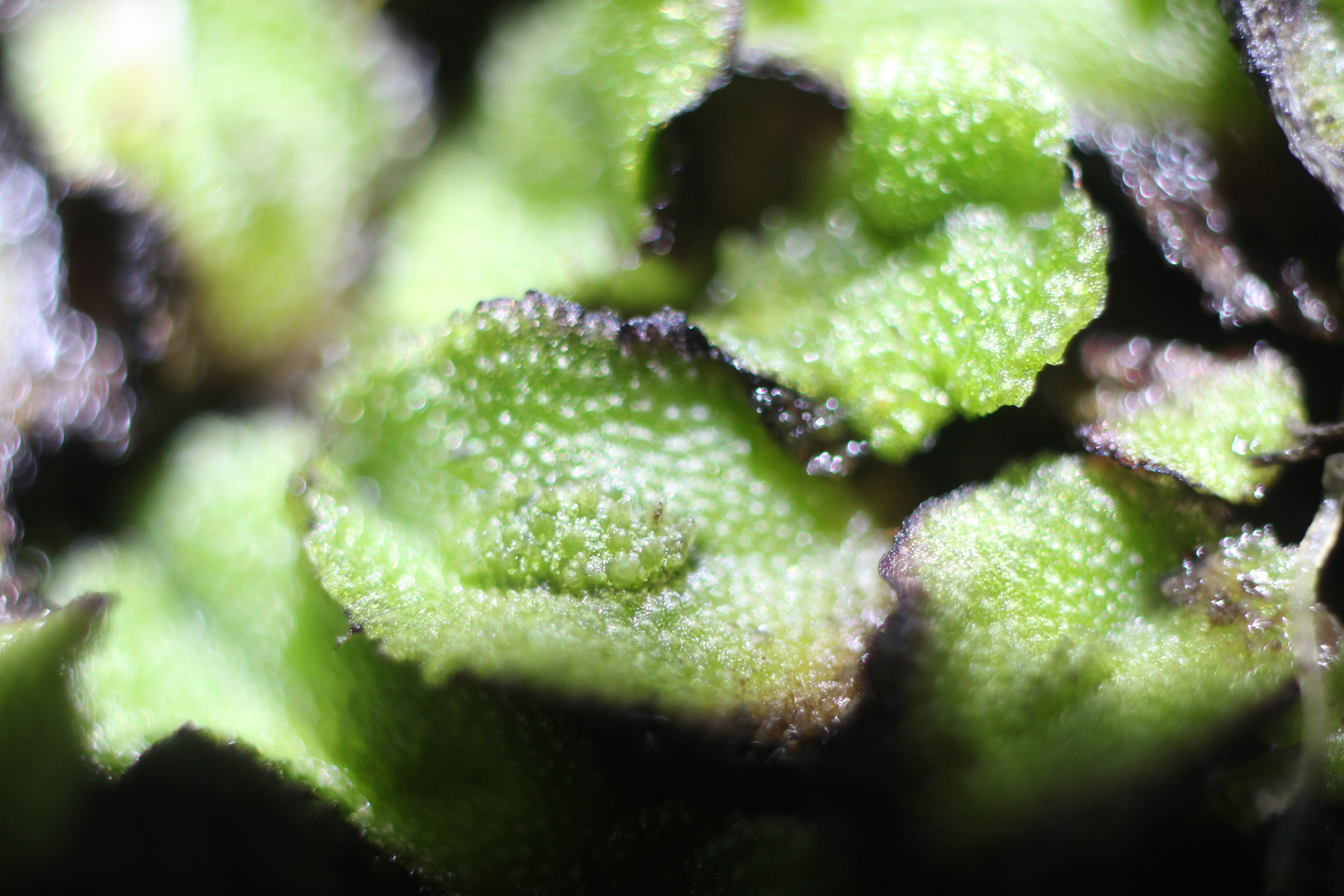 Macro photo of antheridia of Asterella californica